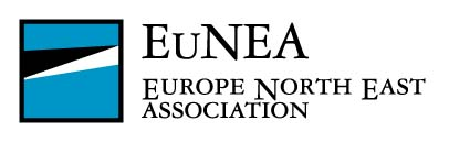 logo Eunea